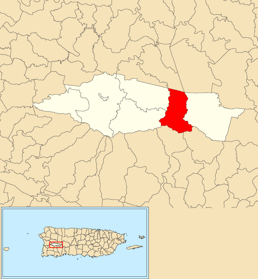 Indiera Baja, Maricao, Puerto Rico locator map